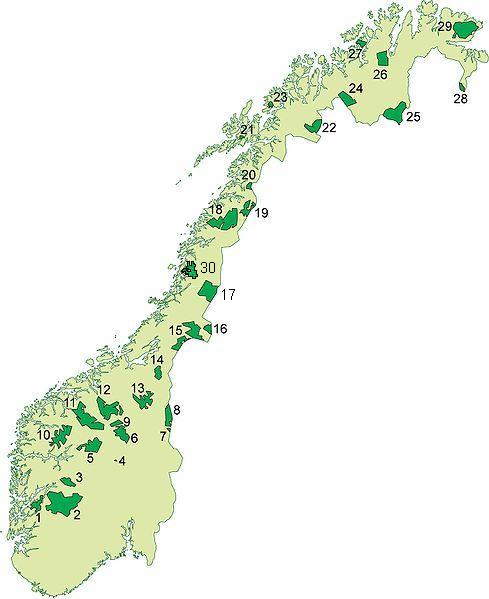 national parks in Norway. Map based on work by User:Finn Bjørklid, file:Nasjonalparker_Norge.JPG. Revised to include one new national park (No. 30).